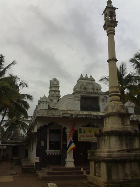 Kalghatagi Shantinatha Basadi Jain temple Author and Source : Manjunath Doddamani, Gajendragad, Karnataka (North), India